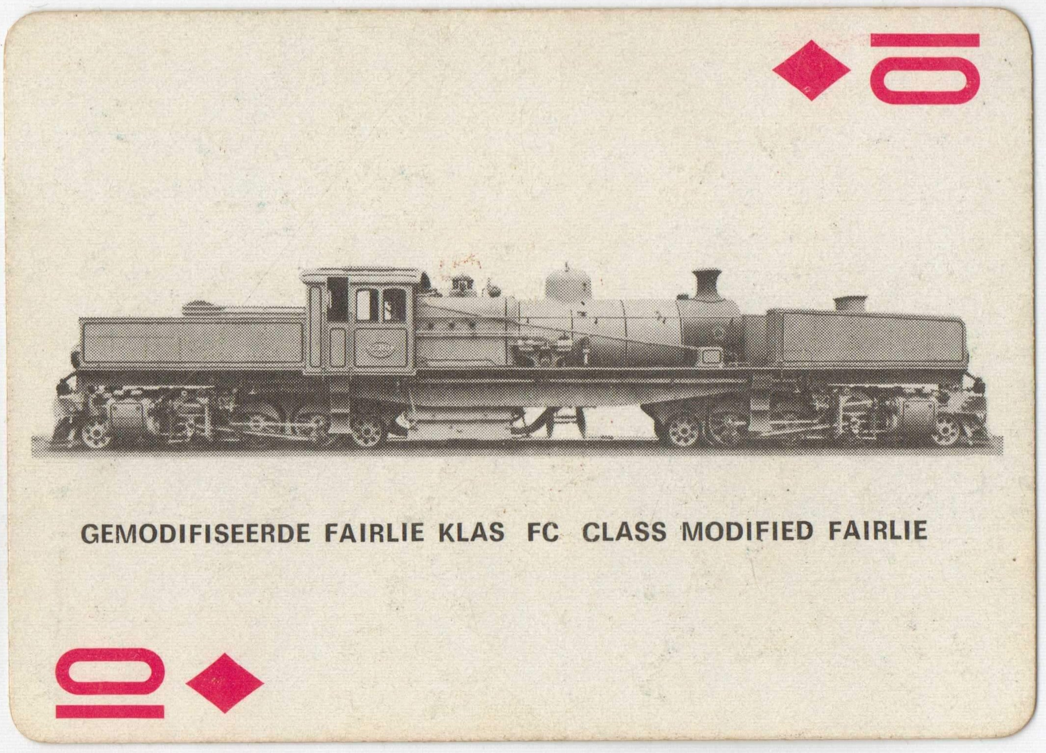 SAR Museum Playing Cards – Diamond Ten Class FC 2310 (2-6-2+2-6-2)